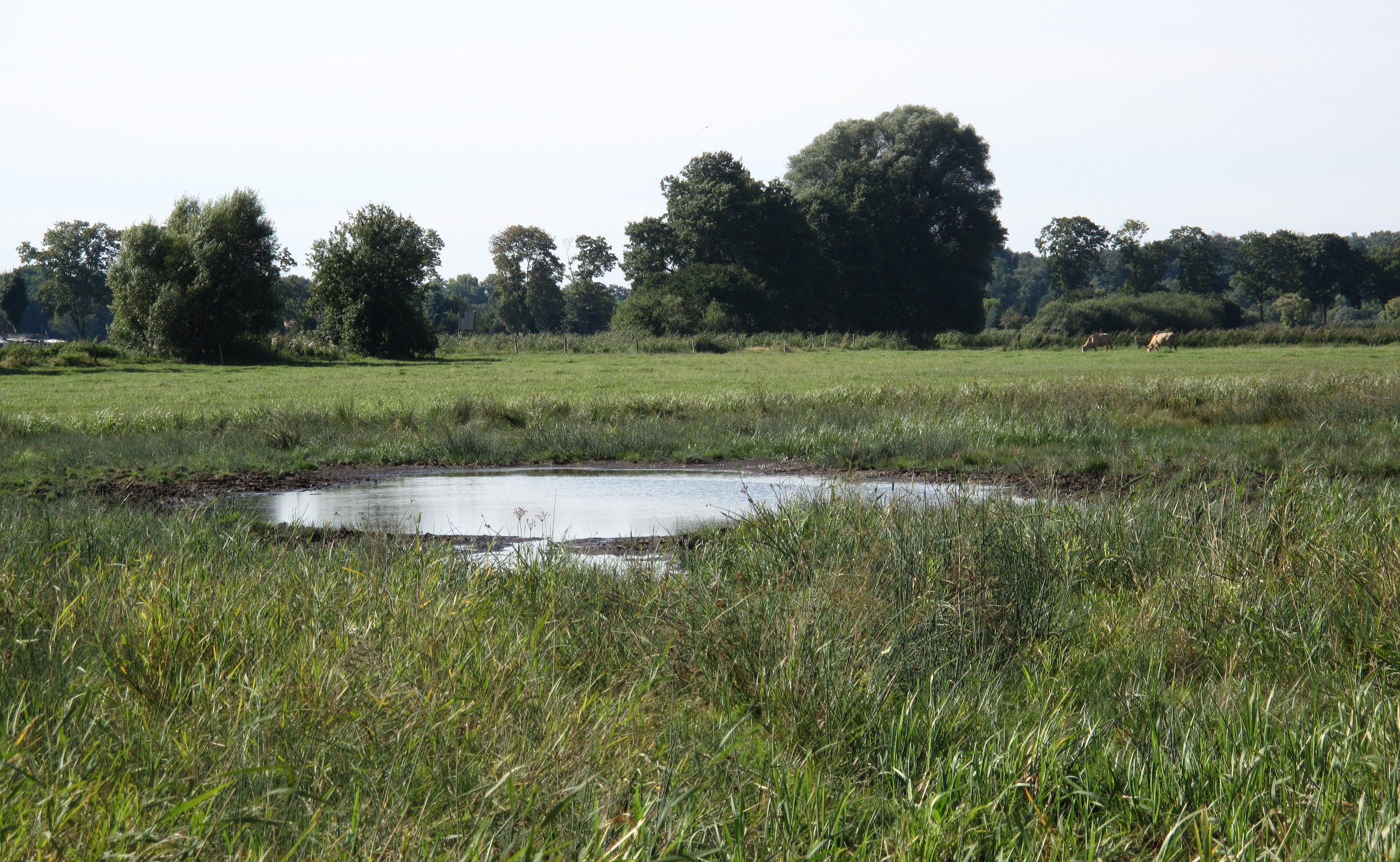 The „Naturschutzgebiet Luchwiesen“ is a Naturschutzgebiet (protected area) and Natura 2000-area in the district Oder-Spree in Brandenburg, Germany. It is situtaed in the territory of the town Storkow and in the territory of Storkow’s Ortsteil (quarter)) Philadelphia (village). The area covers 109,57 hectare, is flown by the Storkower Kanal (water canal) and is placed in the Dahme-Heideseen Nature Park. It is characterised among others by inland salt marsh-meadows and makes up according to the German Federal Agency for Nature Conservation (Bundesamt für Naturschutz – BfN) the largest and most important inland salt marsh in Brandenburg.